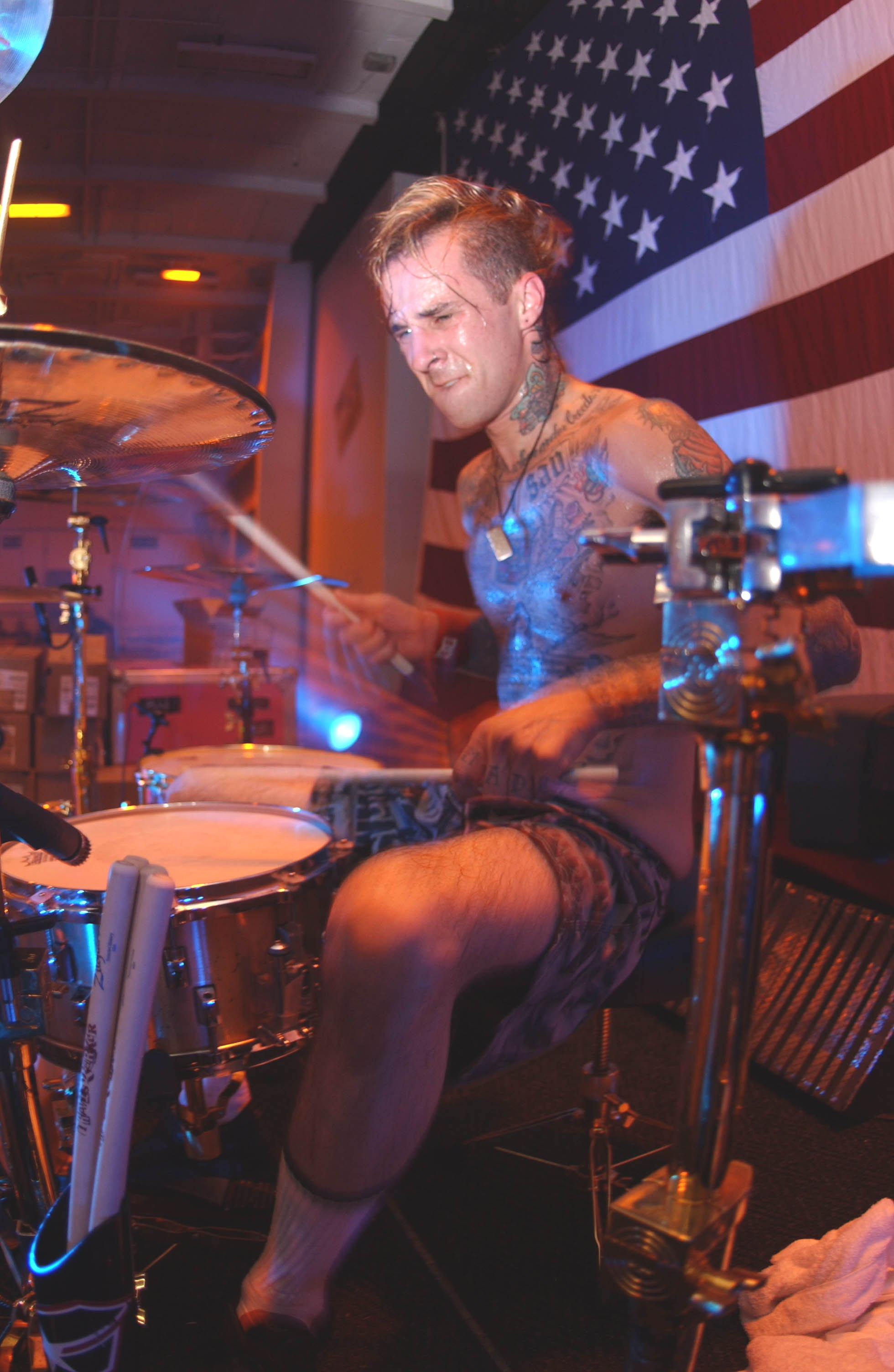 Drummer Travis Barker, of the rock band Blink-182, performs for the crewmembers of USS Nimitz (CVN 68) and Carrier Air Wing Eleven (CVW-11).